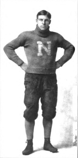 1905 Northwestern Purple football team captain Arthur Rueber, who played right half for the team.